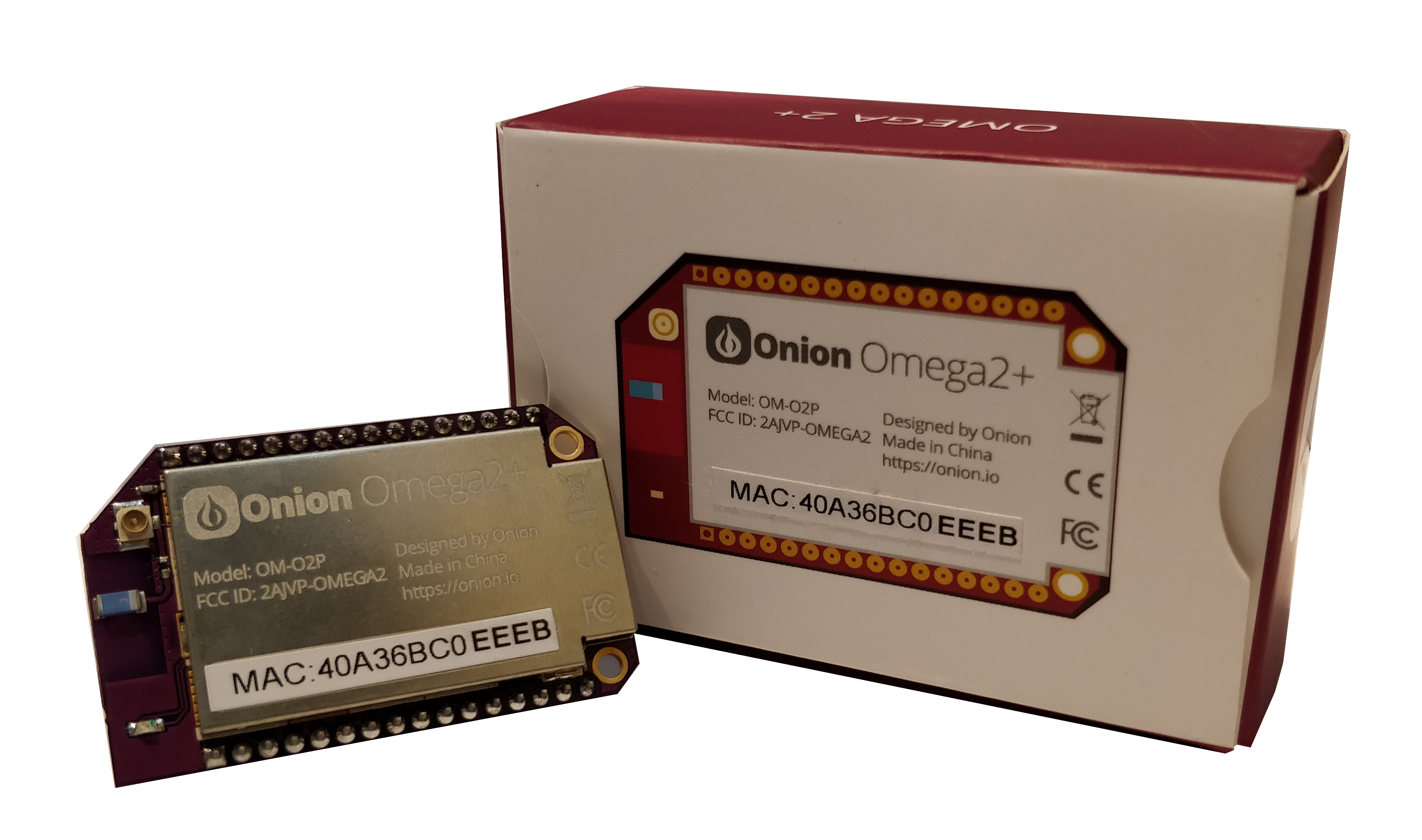 A transparrent picture of the Omega Onoin 2+ mini computer